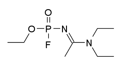 Structure of A-234 according to Mirzayanov